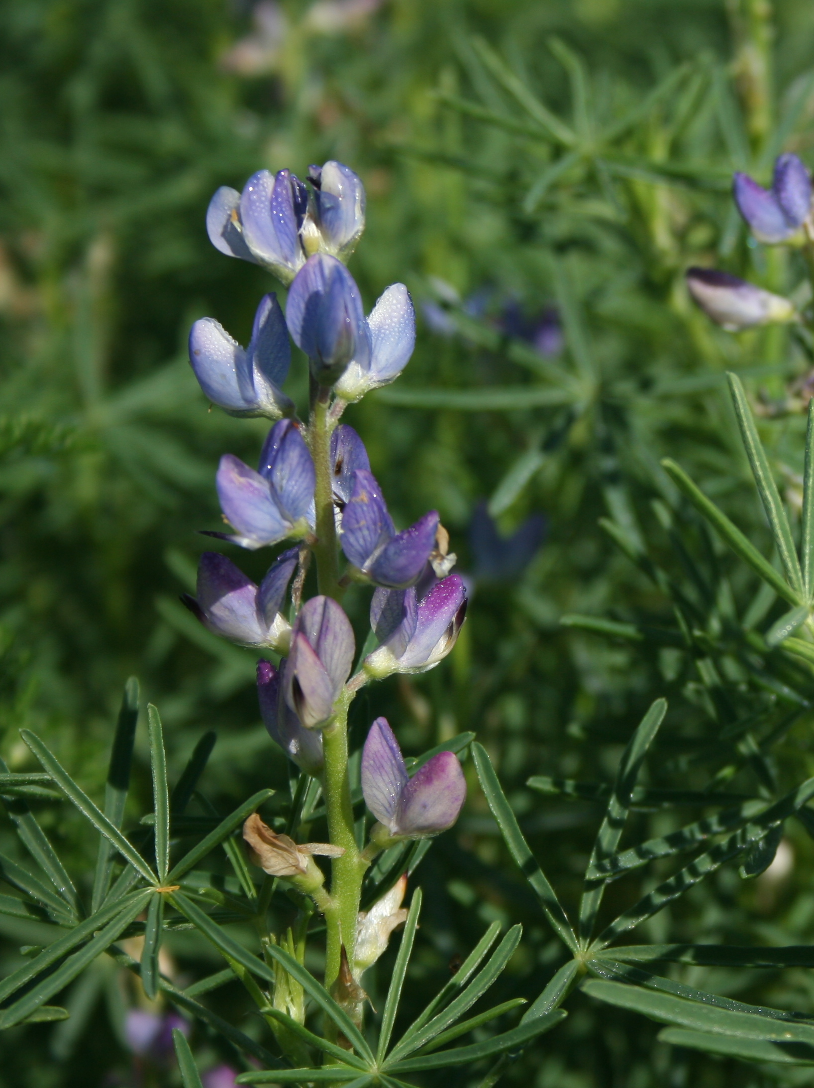 Lupinus angustifolius in Israel, Pardes Hanna